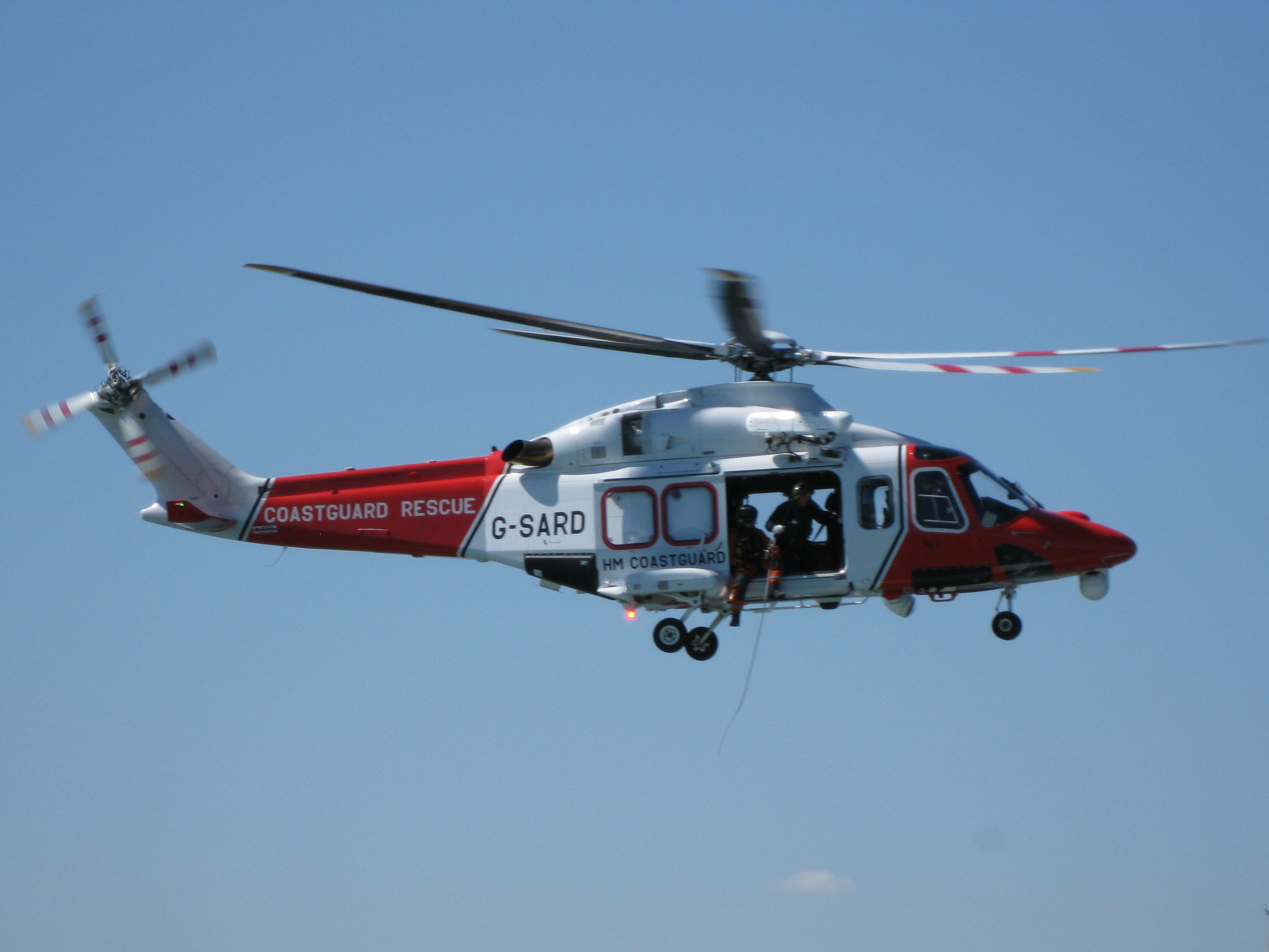 HM Coastguard AgustaWestland AW139 helicopter.